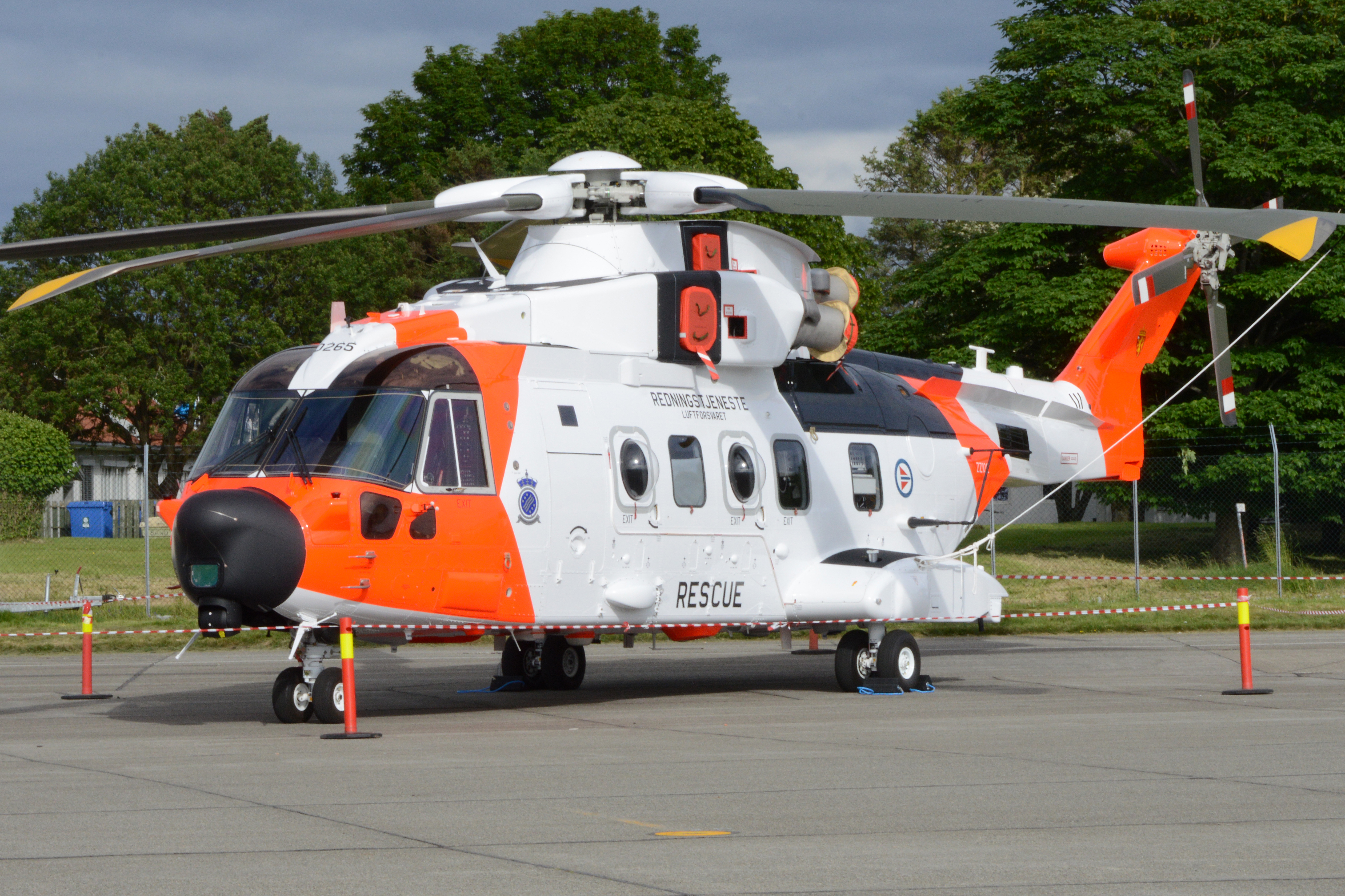 c/n 50265. Built 2017. Norway has ordered sixteen AW101 helicopters to replace its current Sea King fleet. While in full Norwegian colours, this example had not yet been handed over and was being operated by AgustaWestland using the British military serial ZZ102. When handed over it will become ‘0265’ in Norwegian service. On static display at the 2017 Sola Airshow, Stavanger Airport, Sola, Norway. 10th June 2017